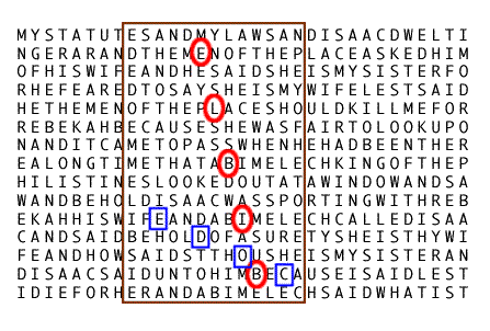 Bible code example, from en:, by user:McKay, public domain.